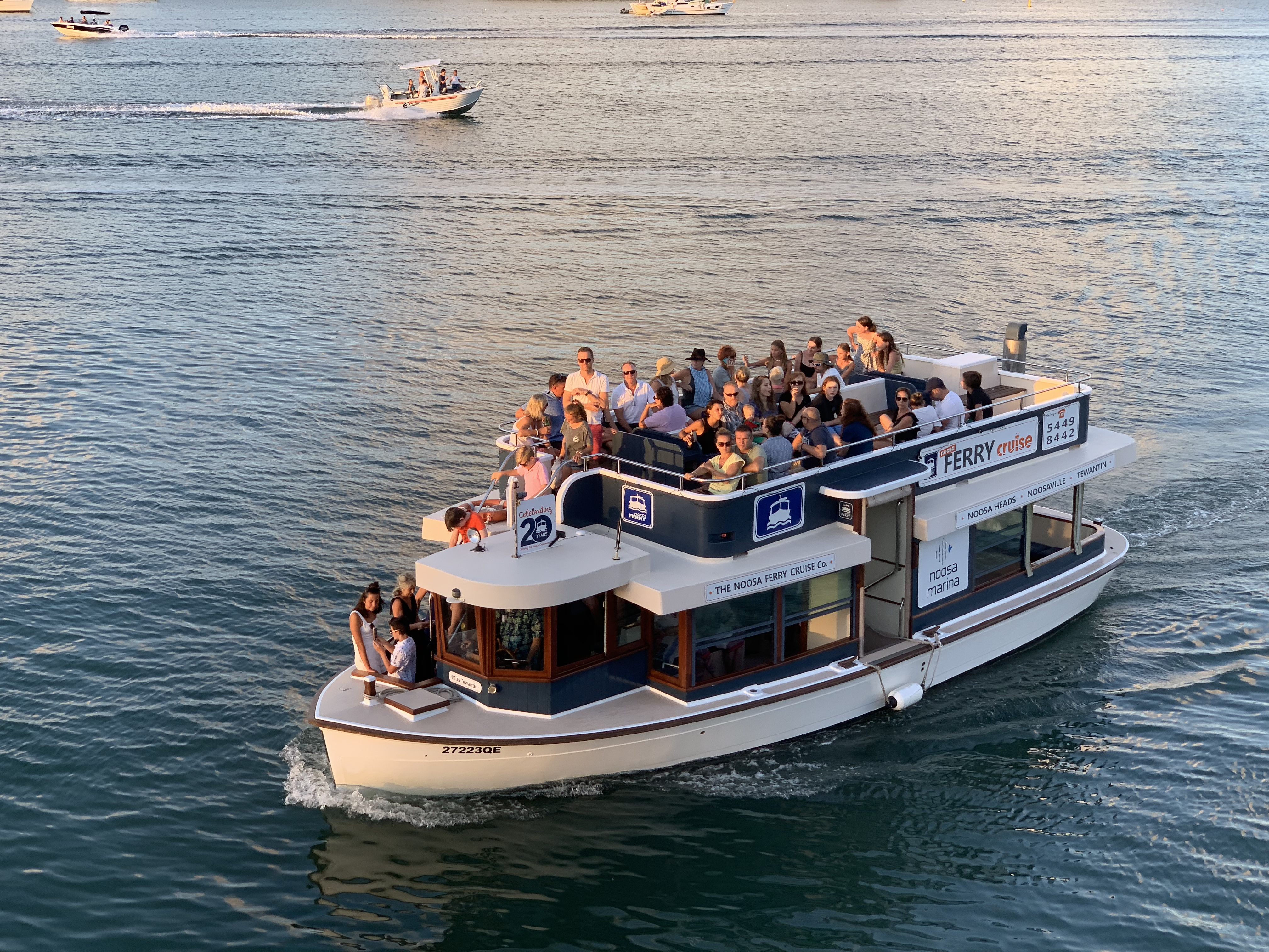 Noosa Ferry on Noosa River approching Noosaville, Queensland